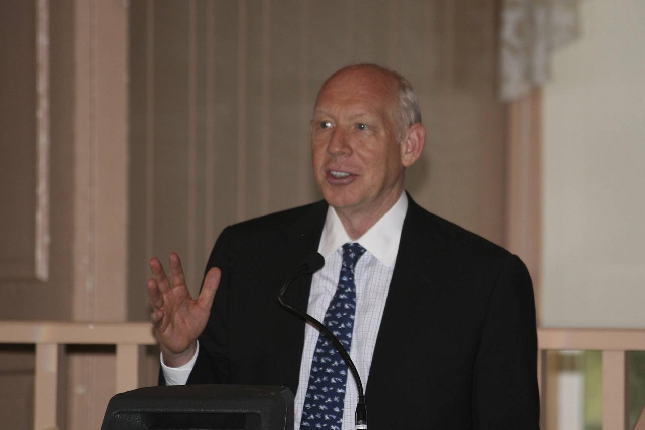 Bill White presenting at IABC Houston